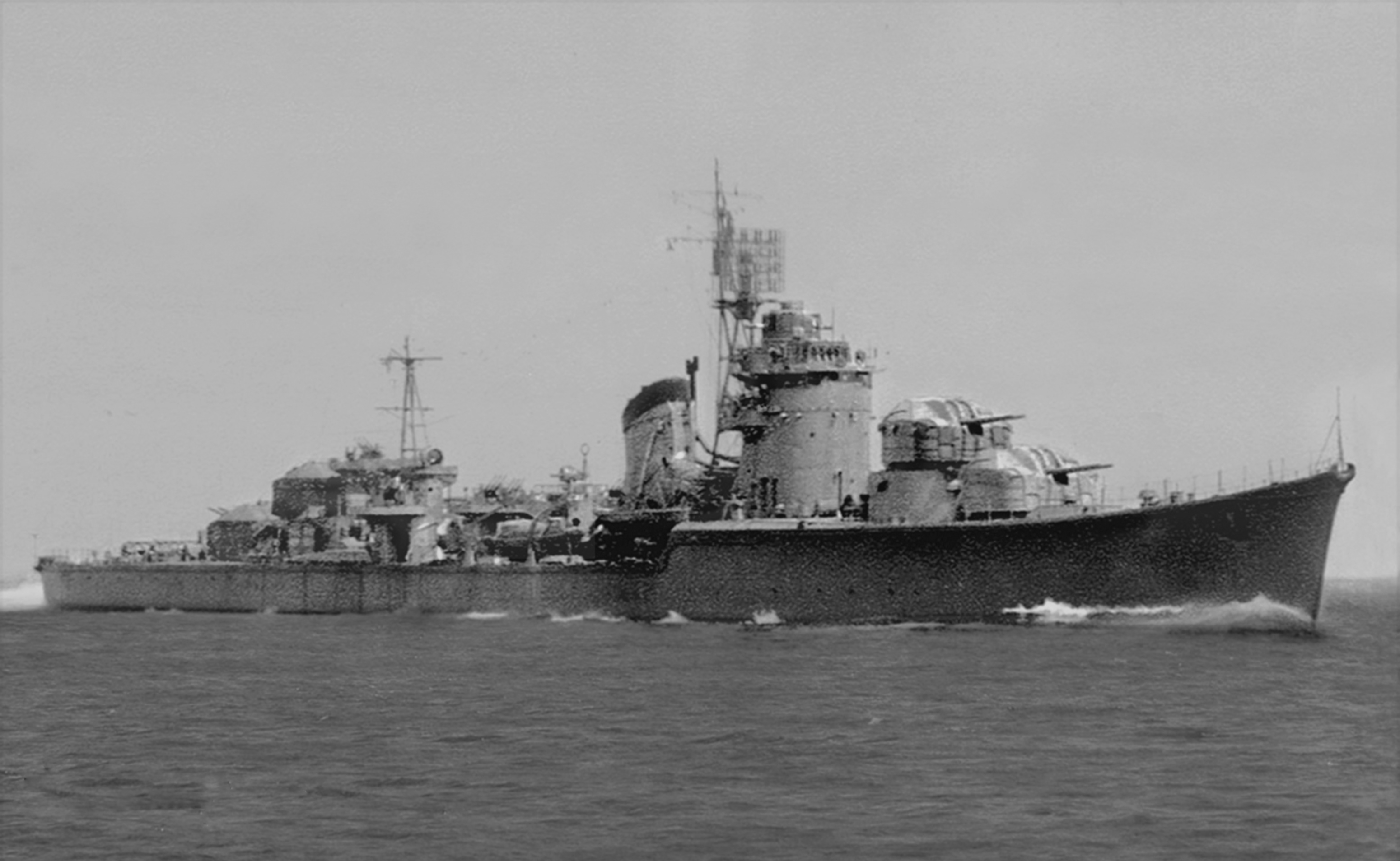 Imperial Japanese Navy destroyer Fuyutsuki (Akizuki-class) in May 1944.